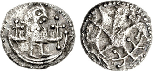 Anglo-Saxons, Secondary Sceattas. Circa 710-720/35. AR Sceatta (0.84 g, 12h). Series U, type 23B. Mint near the upper Thames(?). Figure standing facing on crescent, holding two crosses Bird pecking right. Metcalf 445-446; North 112; SCBC 793. Good VF, toned, minor porosity.